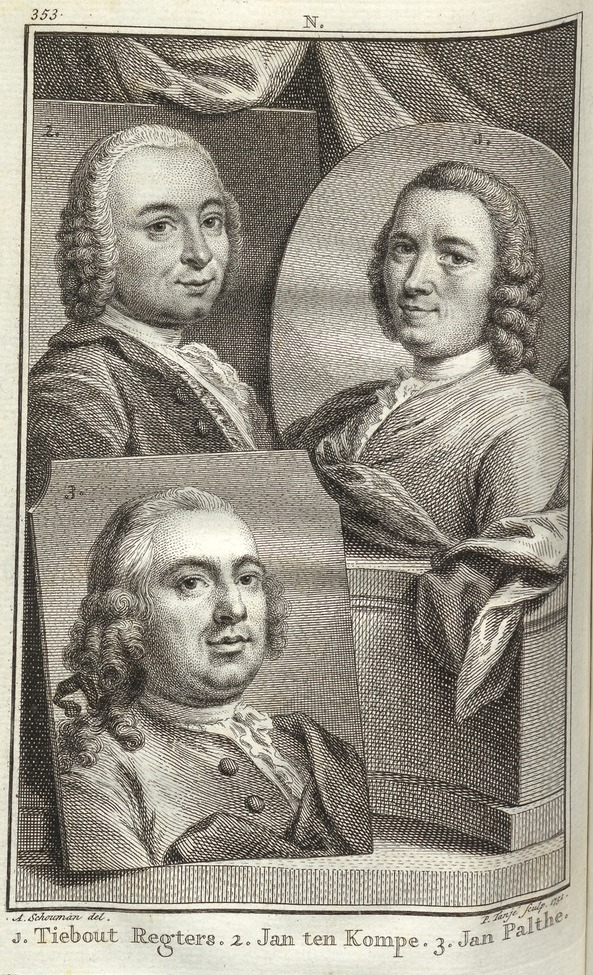 Tiebout Regters, Jan ten Kompe, and Jan Palthe